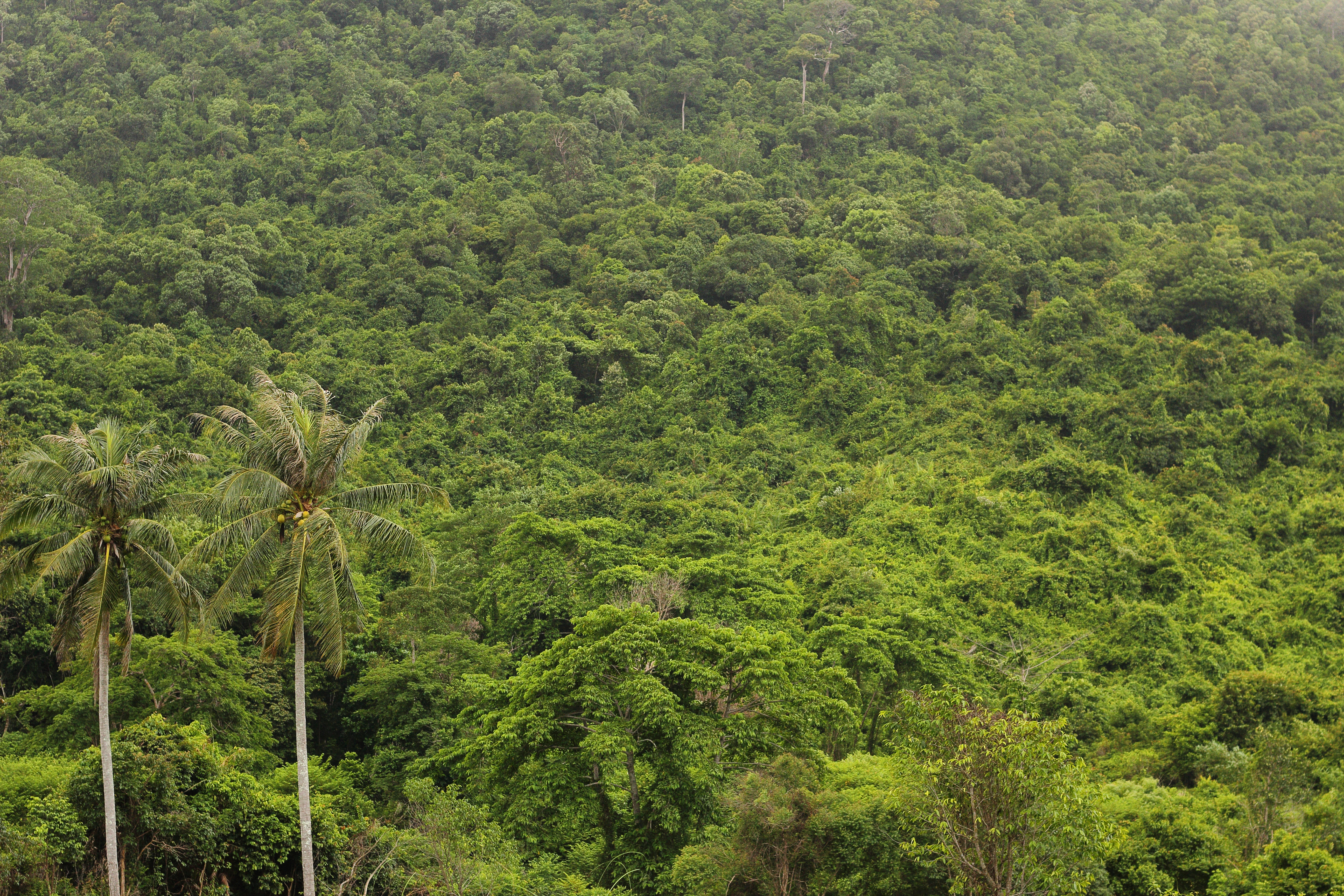 Cambodian Jungle ភាសាខ្មែរ: ព្រៃកម្ពុជា